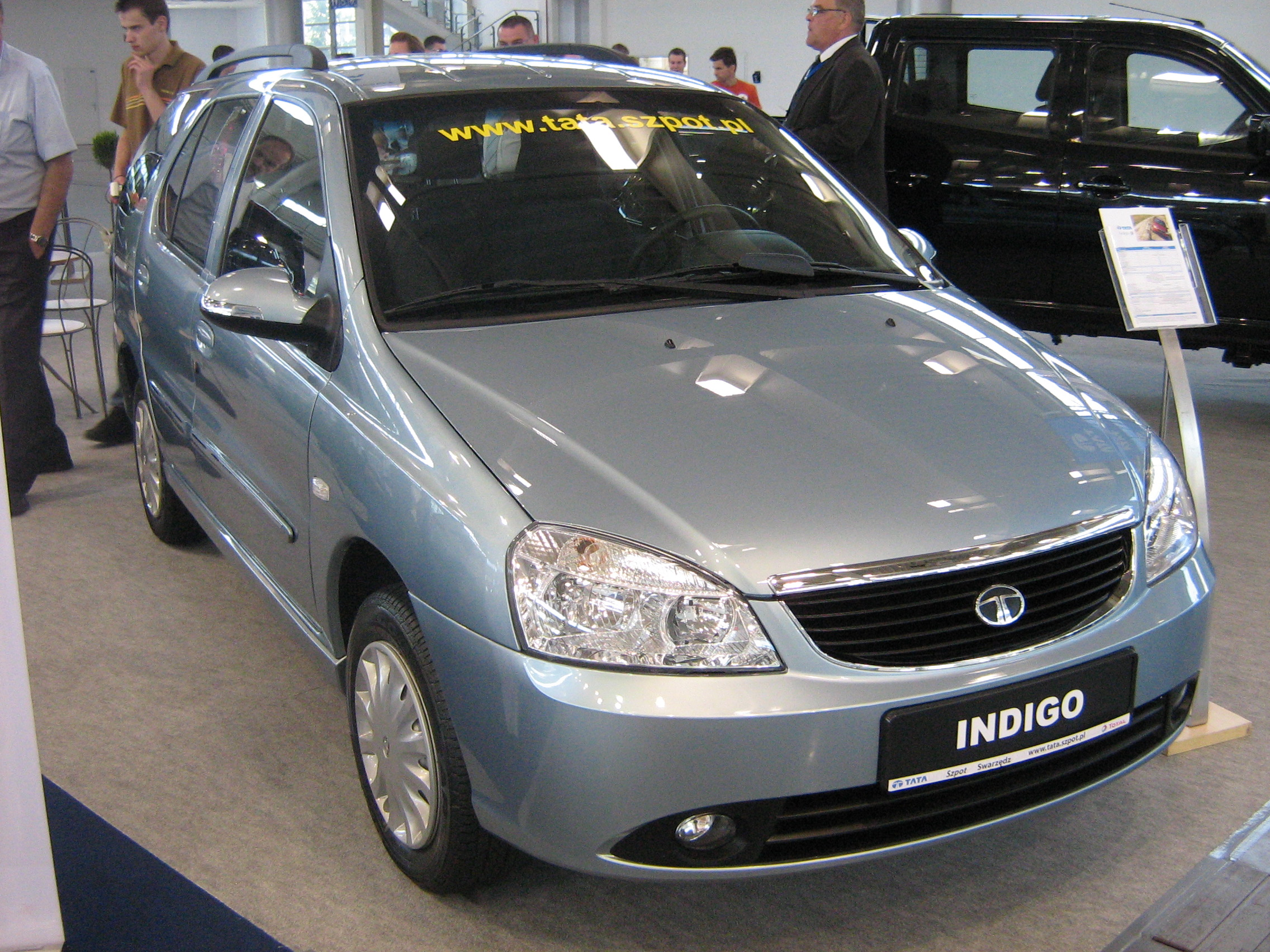 Tata Indigo SW Facelift - PSM 2009 in Poznan.